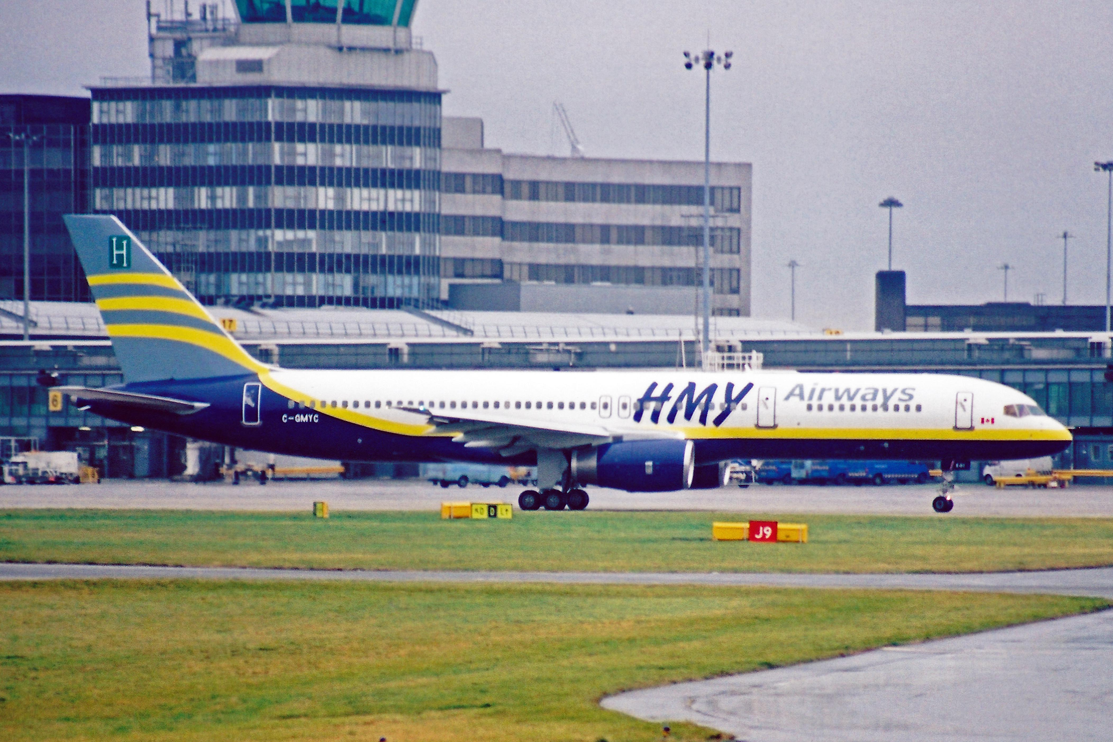 HMY Airways was previously 'Harmony'.